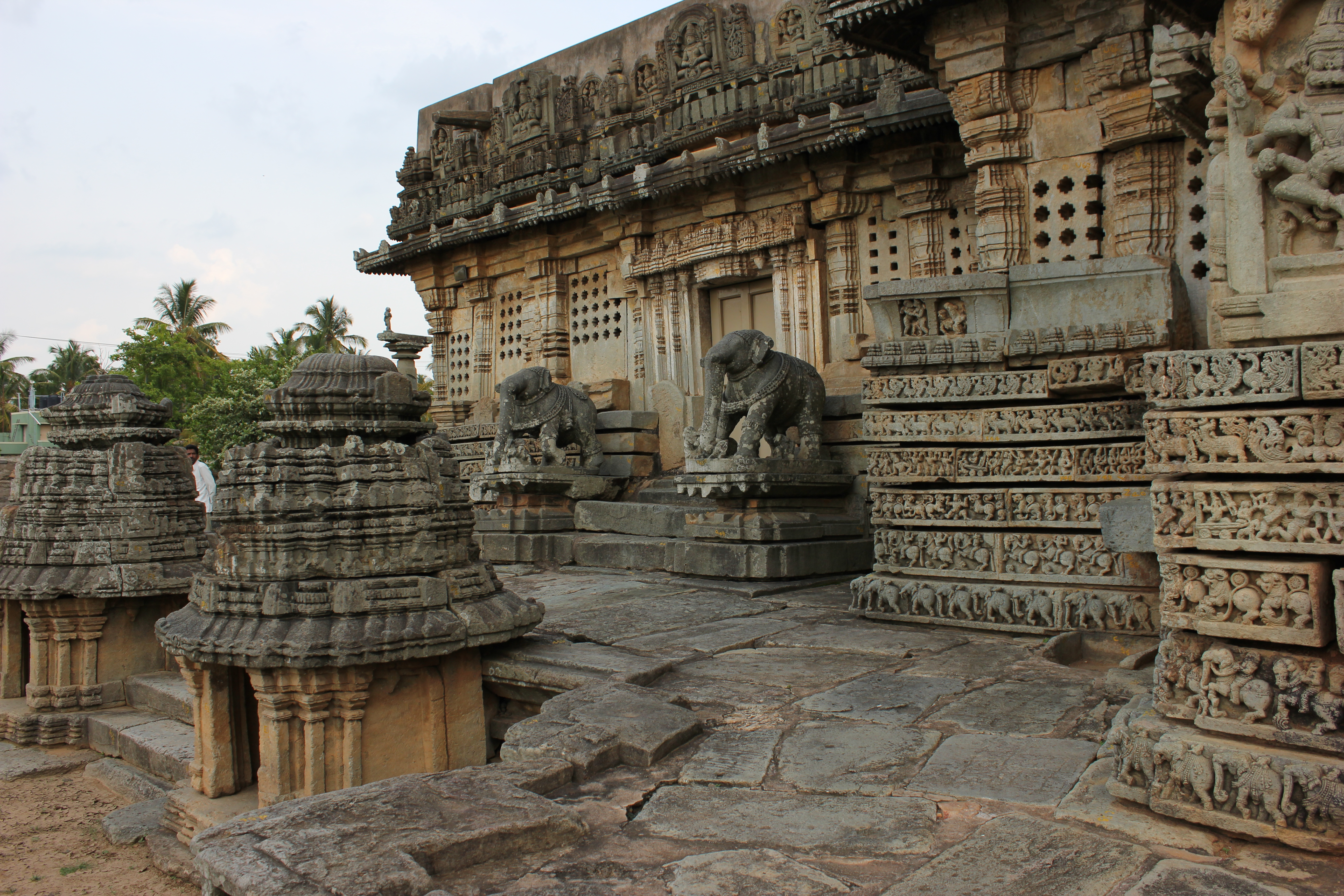 The Mallikarjuna temple is located in Basaralu, Mandya district, Karnataka state, India. The temple was built around 1234 A.D. during the rule of the Hoysala Empire King Vira Narasimha II.